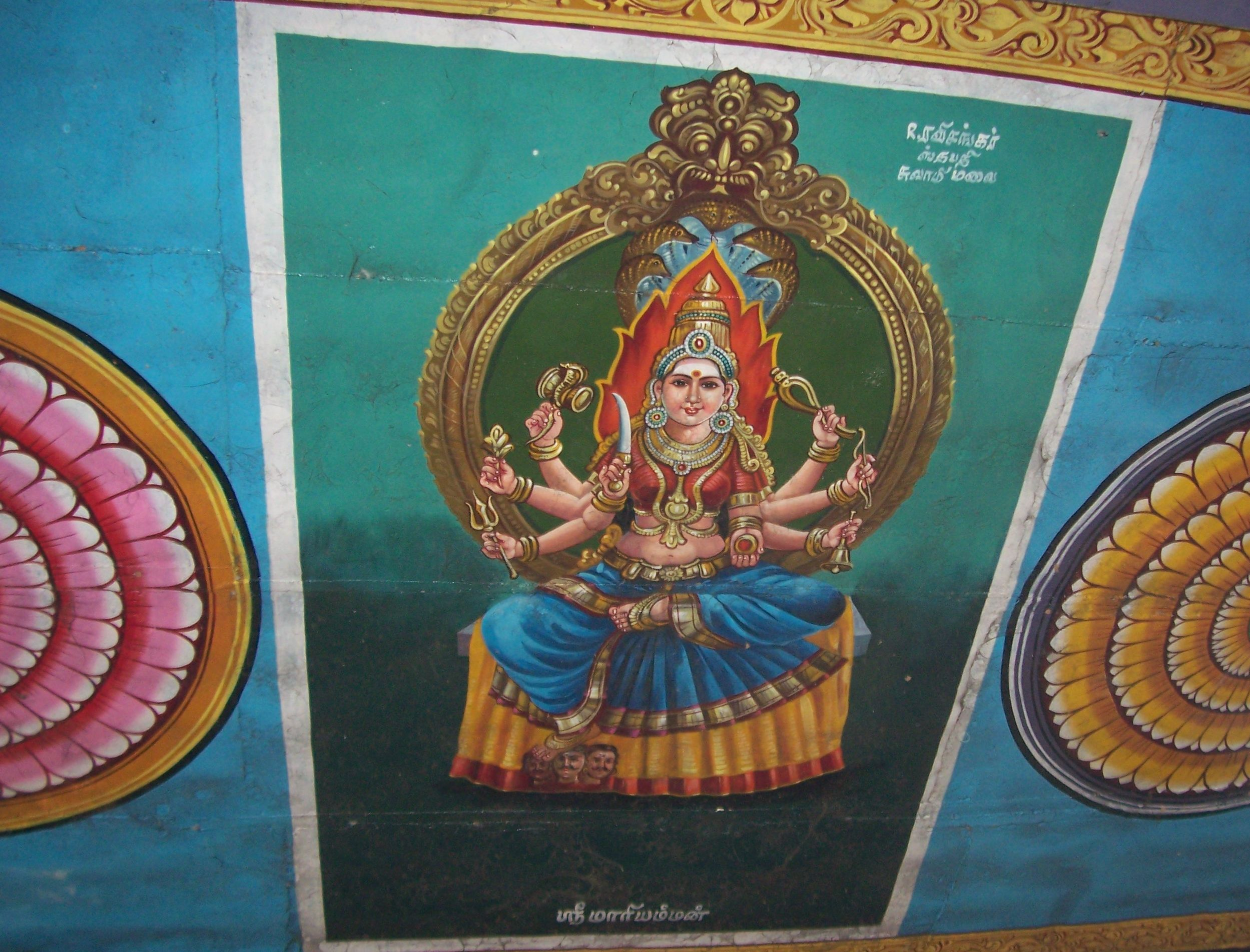 Drawing of the Samayapuram Mariyamman in the Corridor of the Temple at Samayapuram, Tiruchirappalli.